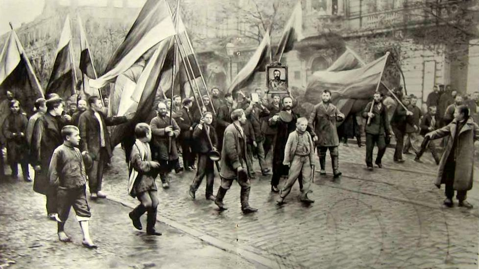 Photoimage from "Illustrated London News" magazine published in 1905. Street of Odessa, Russian Empire with demonstration of loyal to Monarchy people, carrying national flags and portrait of Emperor of Russia Nikolas II short after his "October 17th Manifesto".